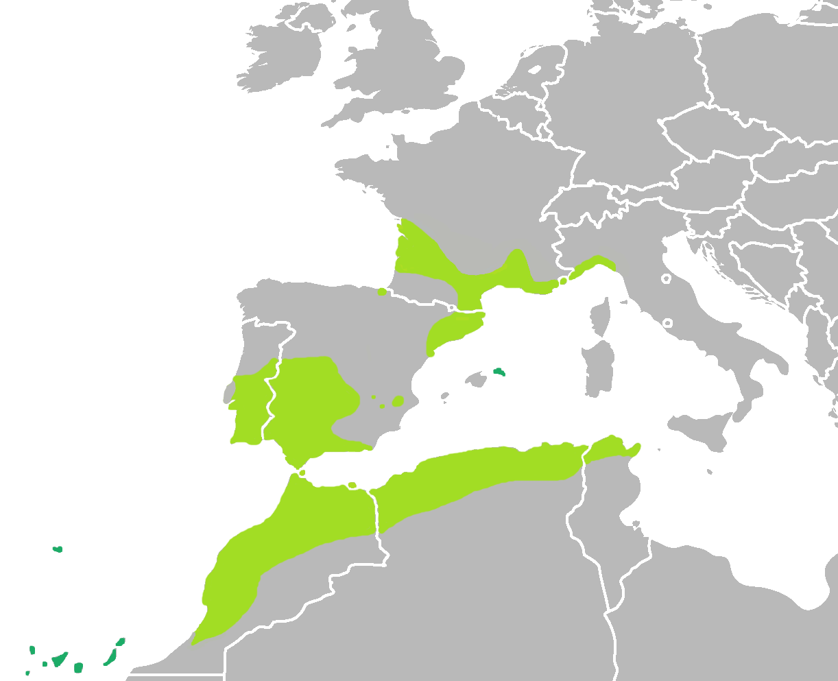 Range map of the Mediterranean or Stripeless Tree Frog, Hyla meridionalis. The range is coloured light-green. To Menorca, Madeira and the Canary Islands — all of them? Confirmed are at least Tenerife and Gomera — the species is believed to be introduced (dark-green signature). Reference: Range map at IUCN Red List.